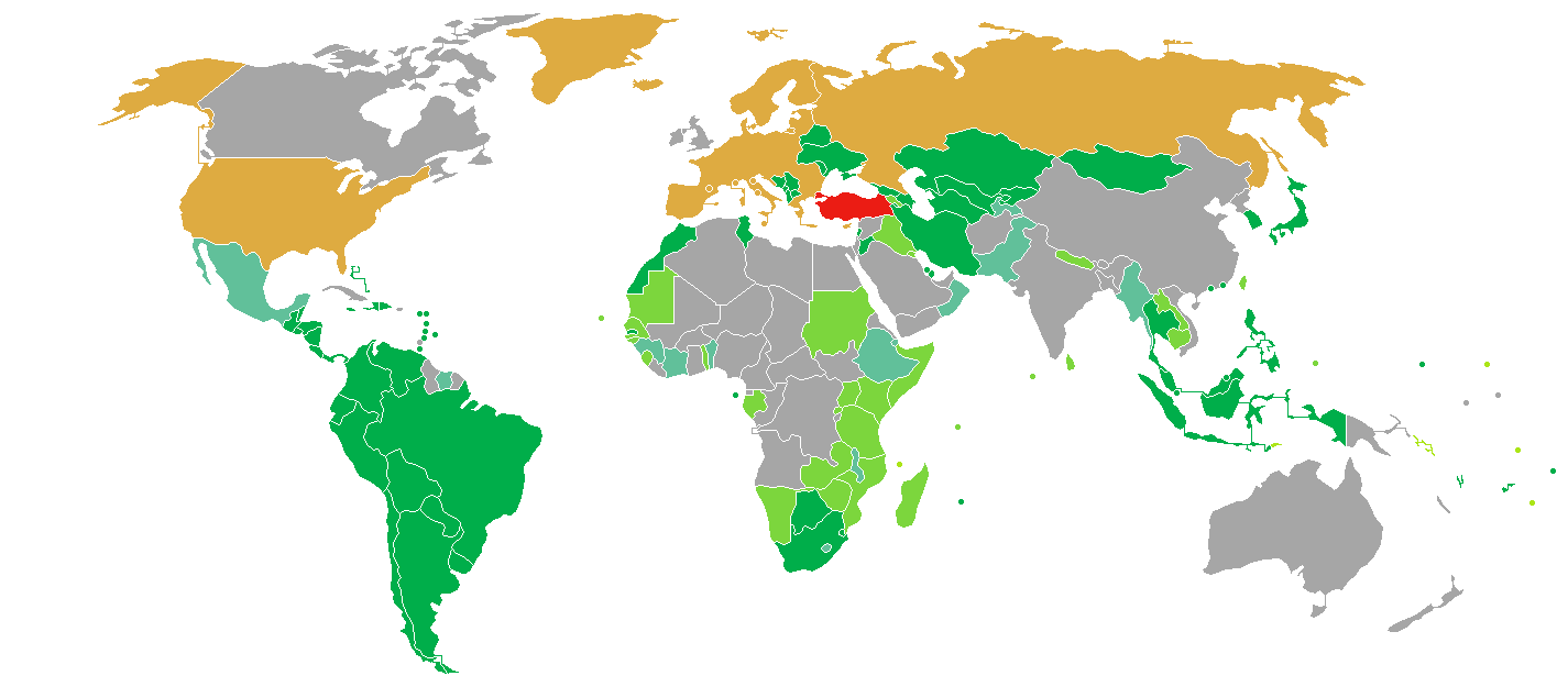 Yellow : Countries that planning visa free travel for Turkish Citizens Until 2021